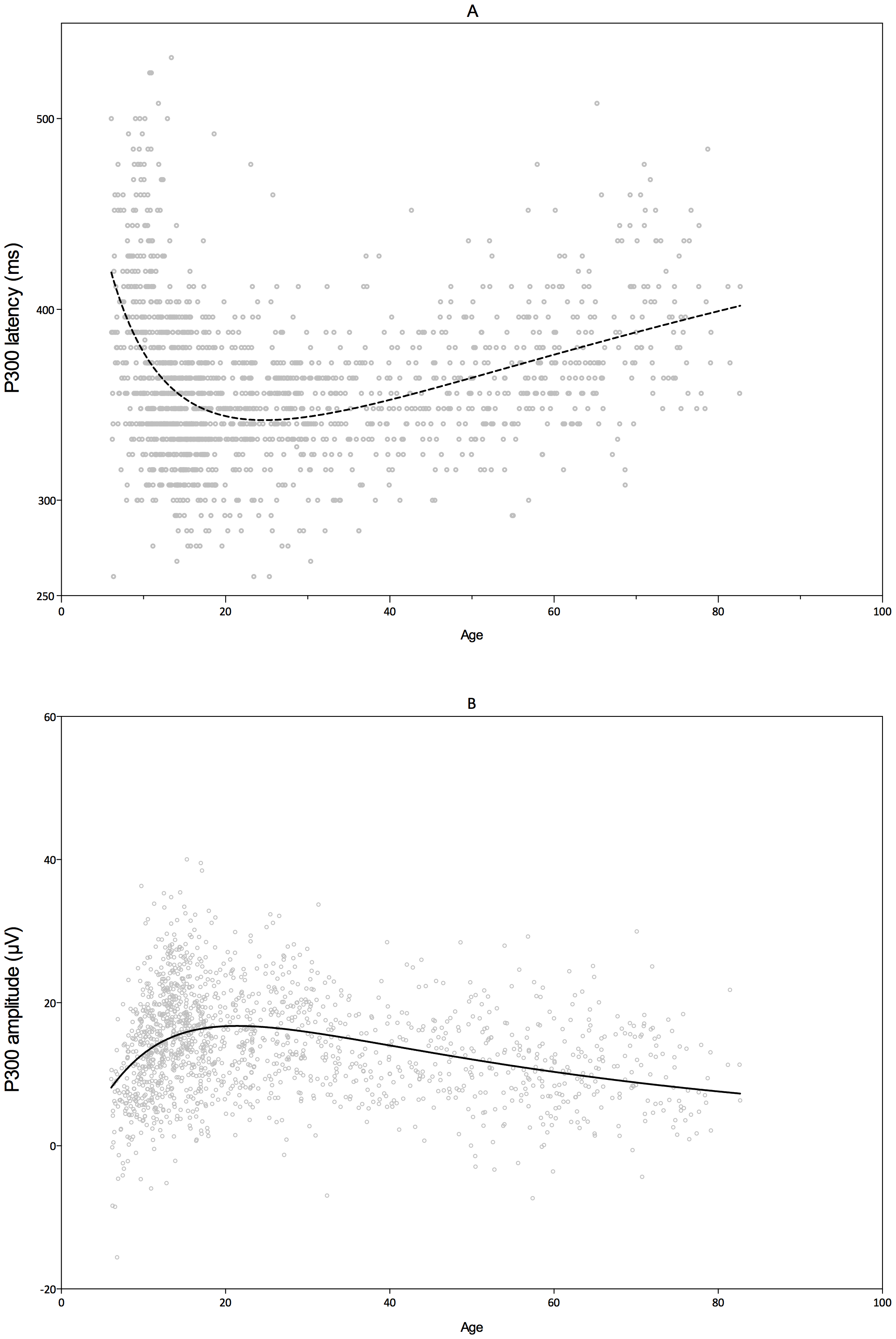 Figure 4. P300 latency and amplitude trajectories across the lifespan as obtained from the cross-sectional dataset. Dots represent scores from individual participants. From P300 Development across the Lifespan: A Systematic Review and Meta-Analysis. Rik van Dinteren, Martijn Arns, Marijtje L. A. Jongsma, Roy P. C. Kessels.